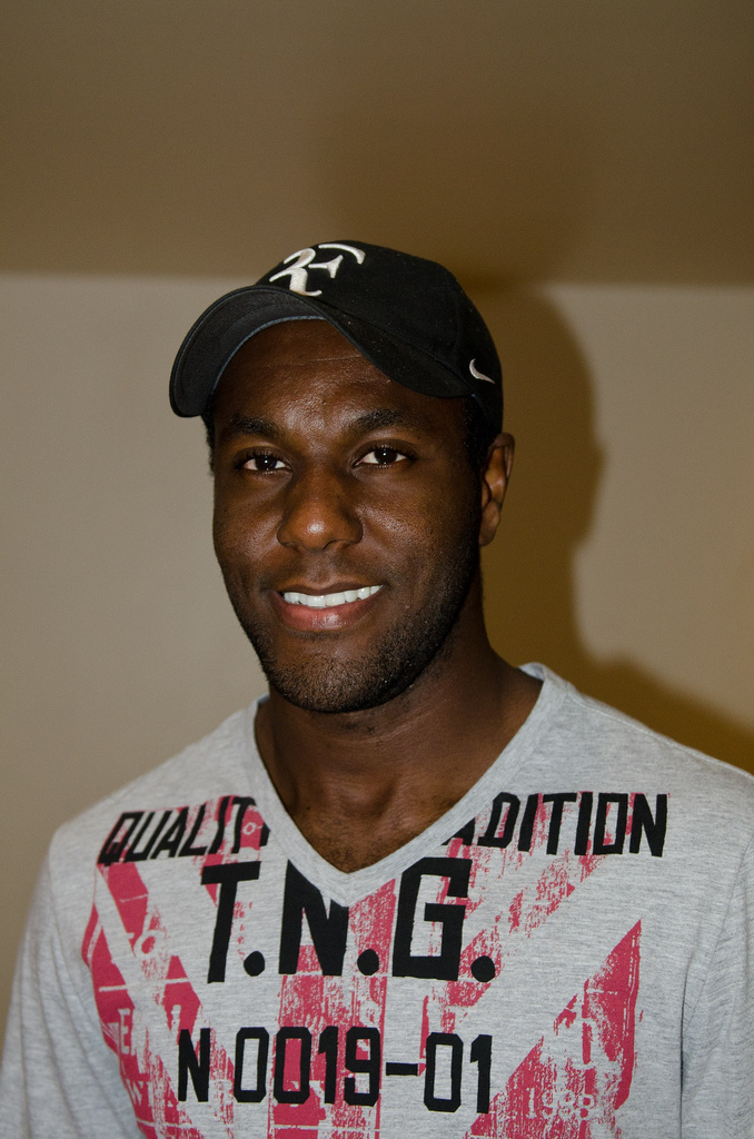 Brazilian footballer who plays in Indian club Prayag United